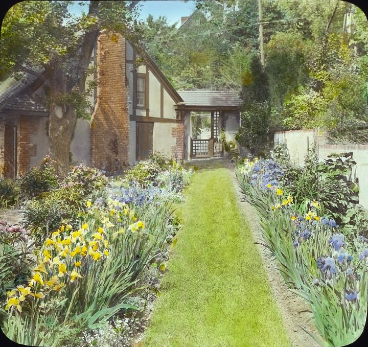 Title [Daniel Elezer Pomeroy house, Beech Road, Englewood, New Jersey. Iris pathway] Contributor Names Johnston, Frances Benjamin, 1864-1952, photographer Created / Published [1918 spring] Subject Headings - Gardens--New Jersey--Englewood--1910-1920 - Irises--New Jersey--Englewood--1910-1920 - Houses--New Jersey--Englewood--1910-1920 Format Headings Lantern slides--Hand-colored--1910-1920. Notes - Site History. House Architecture: Aymar Embury II. Landscape: Ruth Bramley Dean, circa 1915. Associated Name: Frances Morse (Mrs. Daniel E.) Pomeroy. Today: Not extant. - On lantern slide mount: Blue star sticker and red-edged square sticker with line through middle. - On slide (printed): "T.H. McAllister-Keller Co., Inc." and "176 Fulton Street, New York." (slide manufacturer) - Title, date, and subject information provided by Sam Watters, 2011. - Forms part of: Garden and historic house lecture series in the Frances Benjamin Johnston Collection (Library of Congress). - Published in: Gardens for a Beautiful America / Sam Watters. New York : Acanthus Press, 2012. Figure 34e. Medium 1 photograph : glass lantern slide, hand-colored ; 3.25 x 4 in. Call Number/Physical Location LC-J717-X108- 71 [P&P] Repository Library of Congress Prints and Photographs Division Washington, D.C. 20540 USA Digital Id ppmsca 16798 //hdl.loc.gov/loc.pnp/ppmsca.16798 Library of Congress Control Number 2008676098 Reproduction Number LC-DIG-ppmsca-16798 (digital file from original item) Rights Advisory No known restrictions on publication. Online Format image Description 1 photograph : glass lantern slide, hand-colored ; 3.25 x 4 in. LCCN Permalink